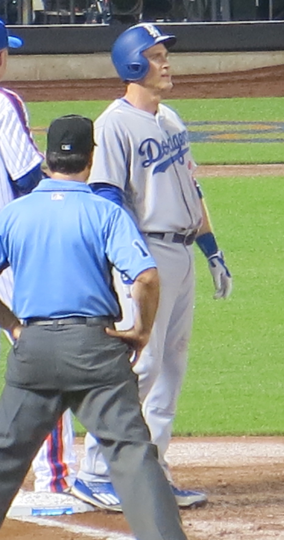 Chase Utley with the Los Angeles Dodgers, May 29, 2016.